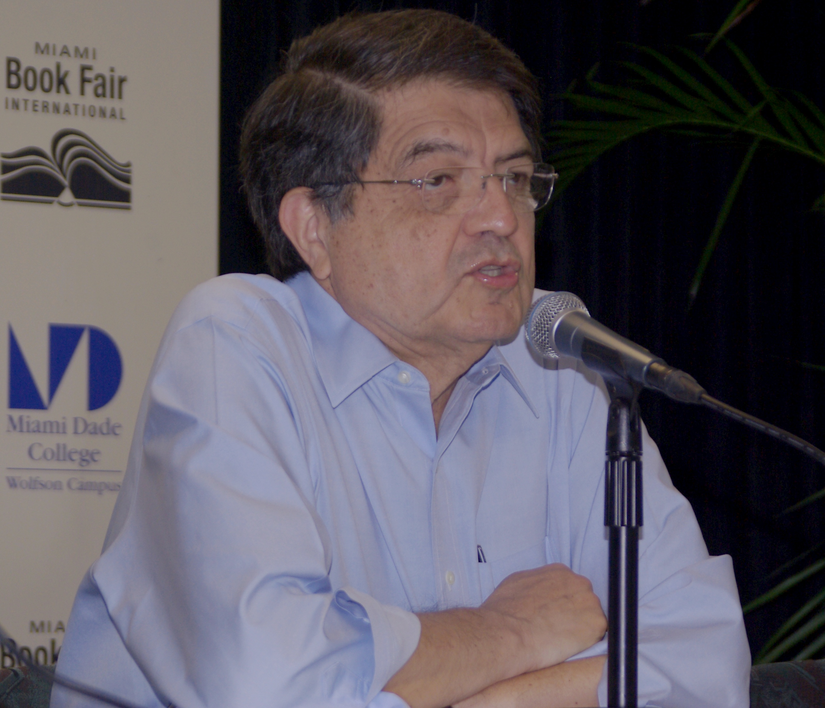 Nicaraguan writer Sergio Ramirez at the Miami Book Fair International 2011